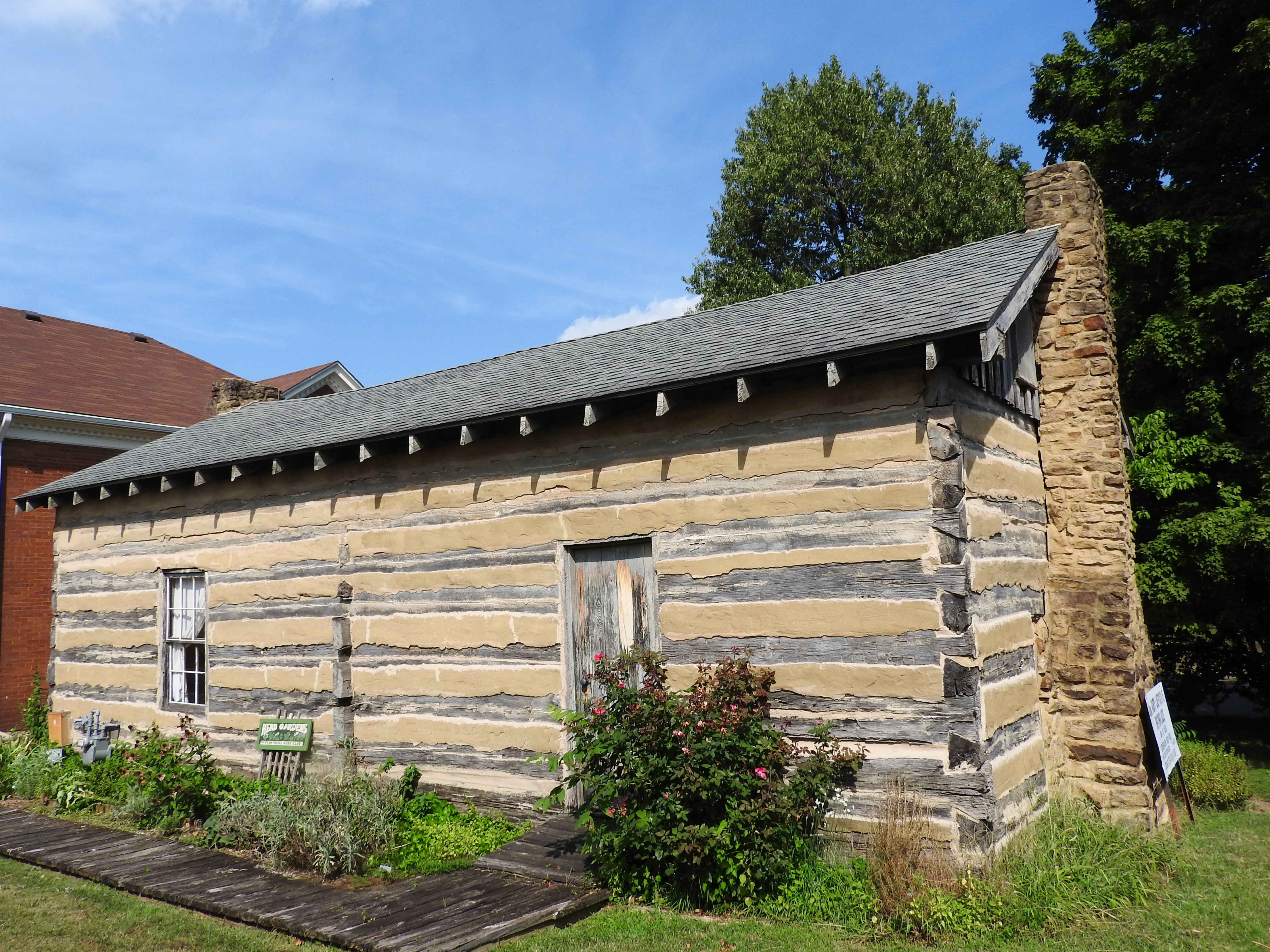 Looking northeast at log cabin